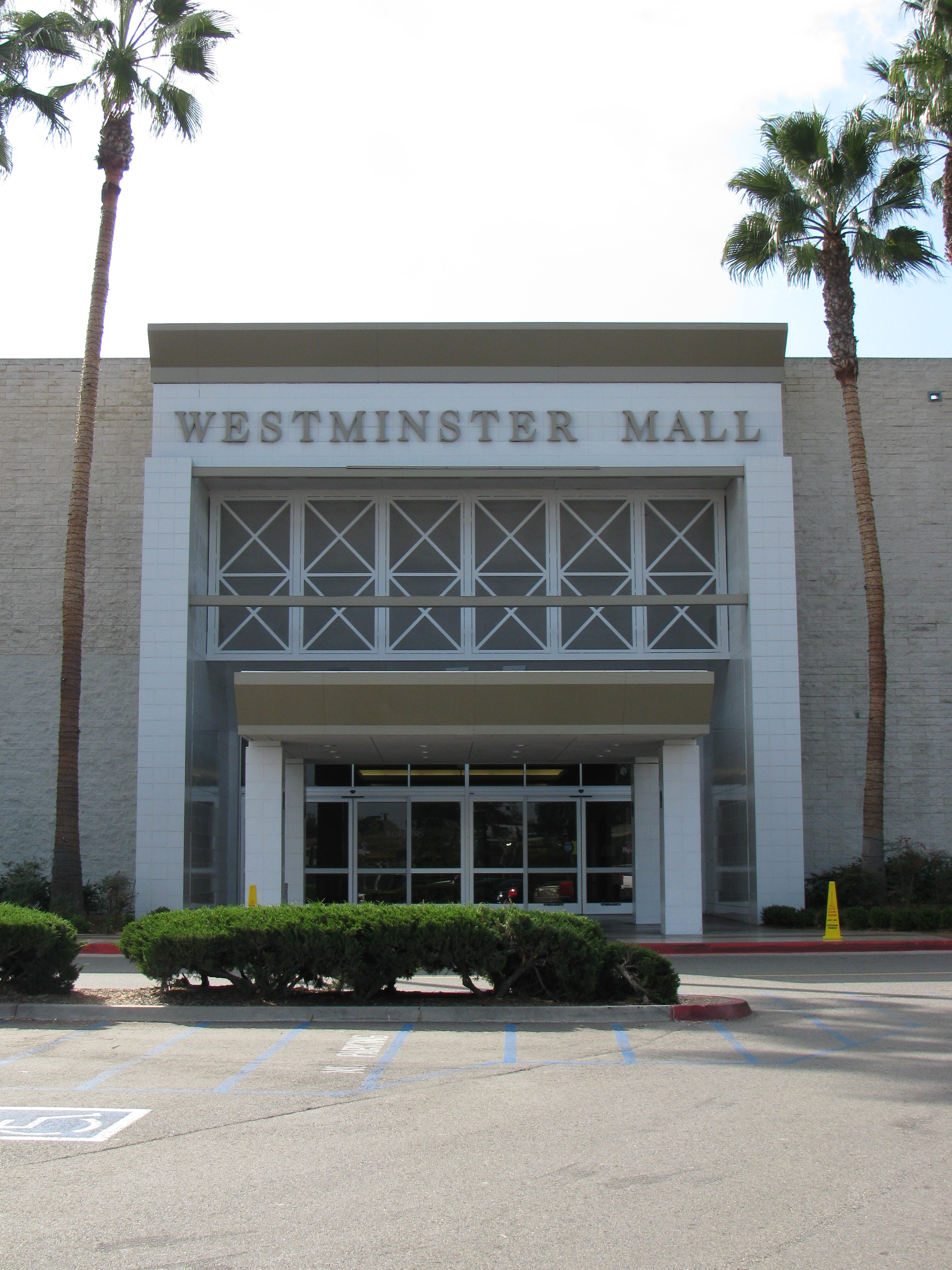 One of the entrances to Westminster Mall in Westminster, CA. This Entrance faces the 405 freeway between Sears and JC Penney.